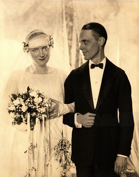 Actress, Peggy Wood, grinning, wearing a white wedding dress studded with pearls, holding a bouquet of orange blossoms, and standing arm-in-arm with her husband, John V. A. Weaver, wearing...